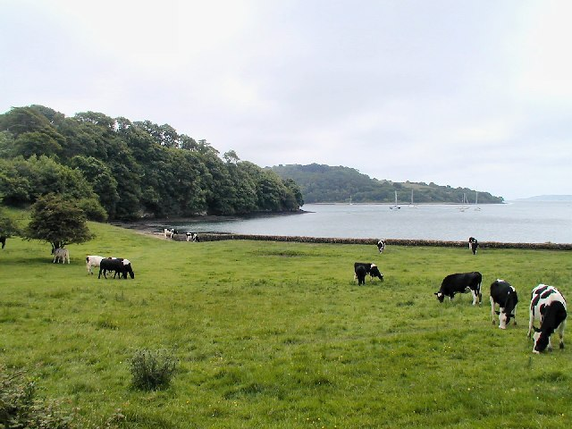 Trelissick grounds. Looking SE down the River Fal, near Channals Creek